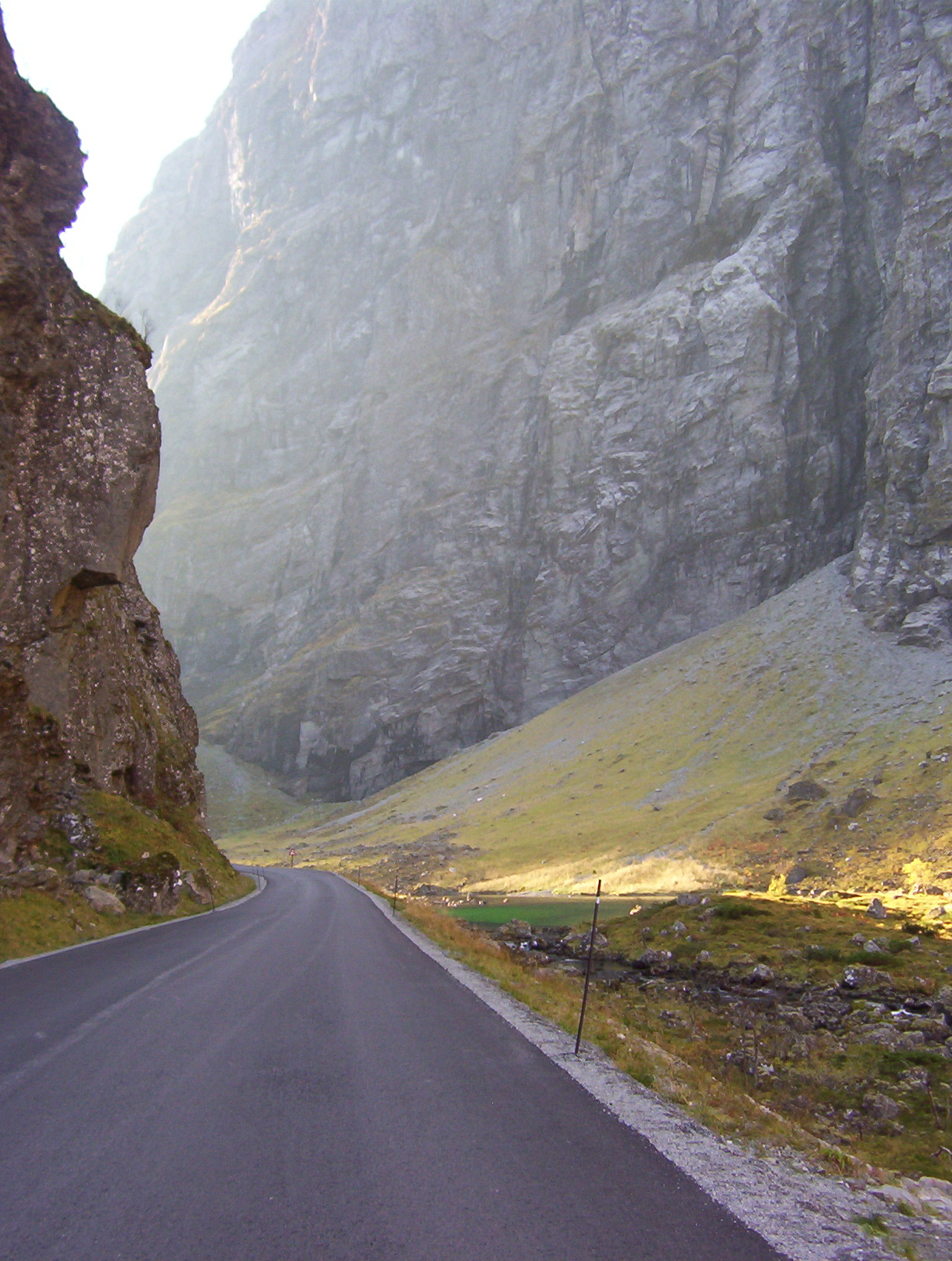 Riksvei 655 in Norangsdalen in Ørsta, Norway. Original description: The end of the road? No it just bends through Northern Europe's most narrow ravine, in Norangdal, Ørsta. Situated in the middle of Sunnmørsalpane. During the winter the sun never reaches and avalanches from both sides of the ravine will close the road often. Picture taken in October 2004 with my old compact camera, a lucky catch of some of the last sunrays that year! It remains one of my all time favorites!